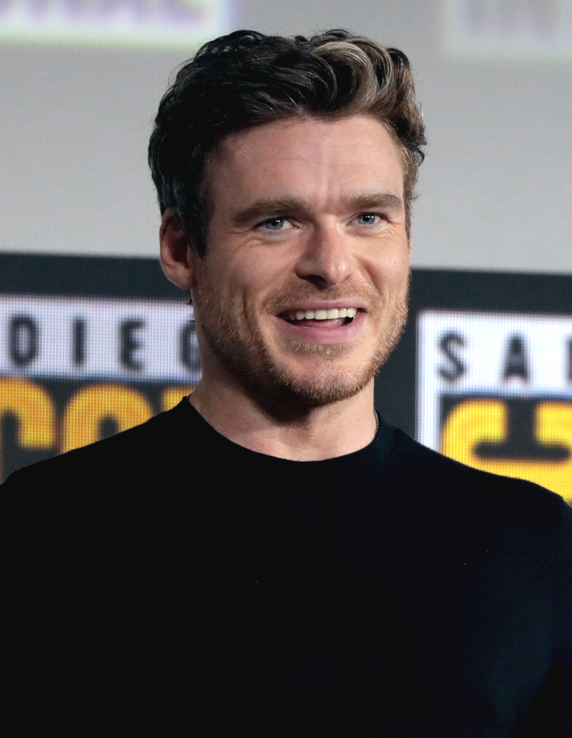 Richard Madden speaking at the 2019 San Diego Comic-Con International in San Diego, California.